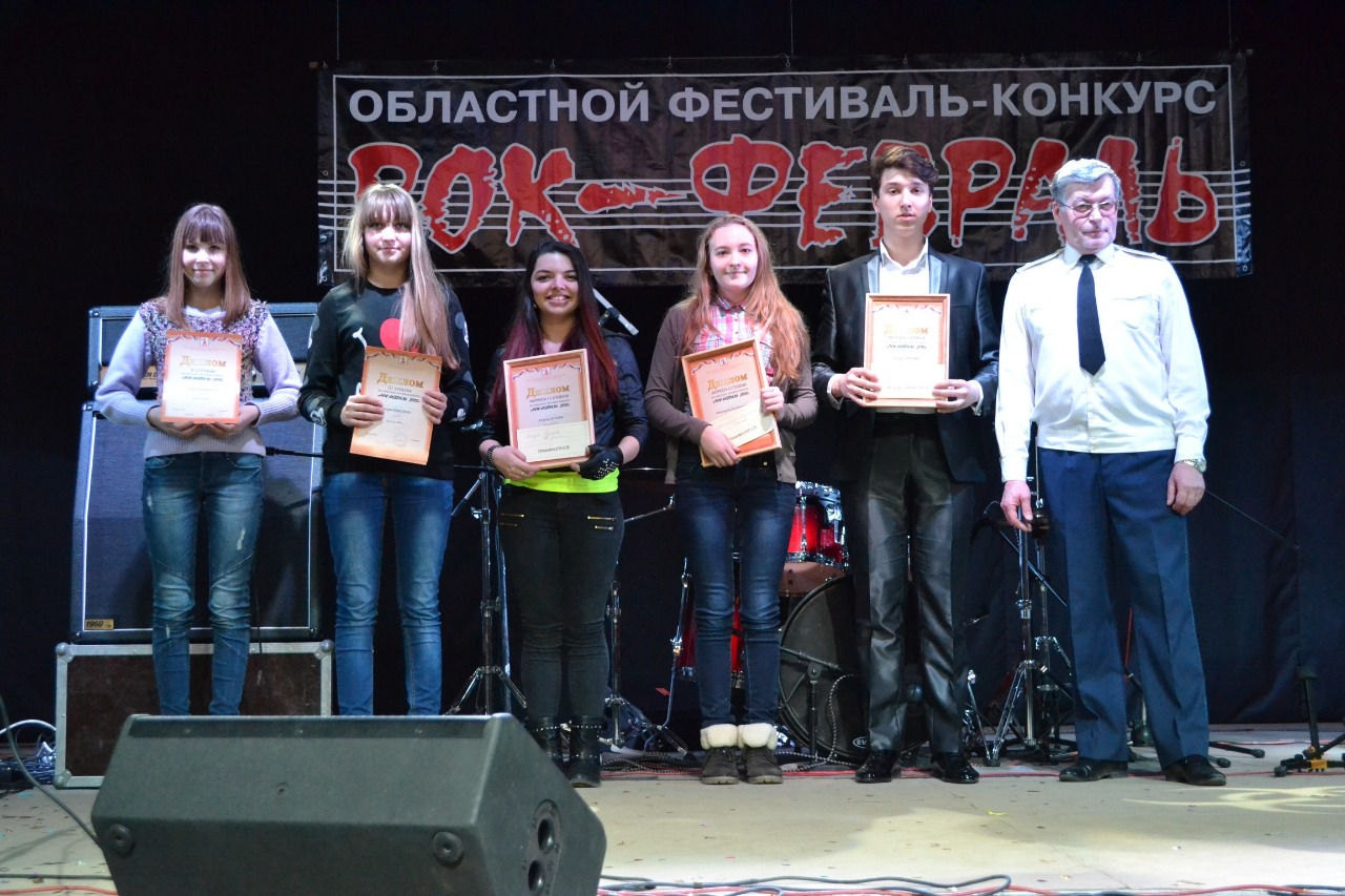 Музыканты XXII Областного фестиваля «Рок-Февраль — 2015»